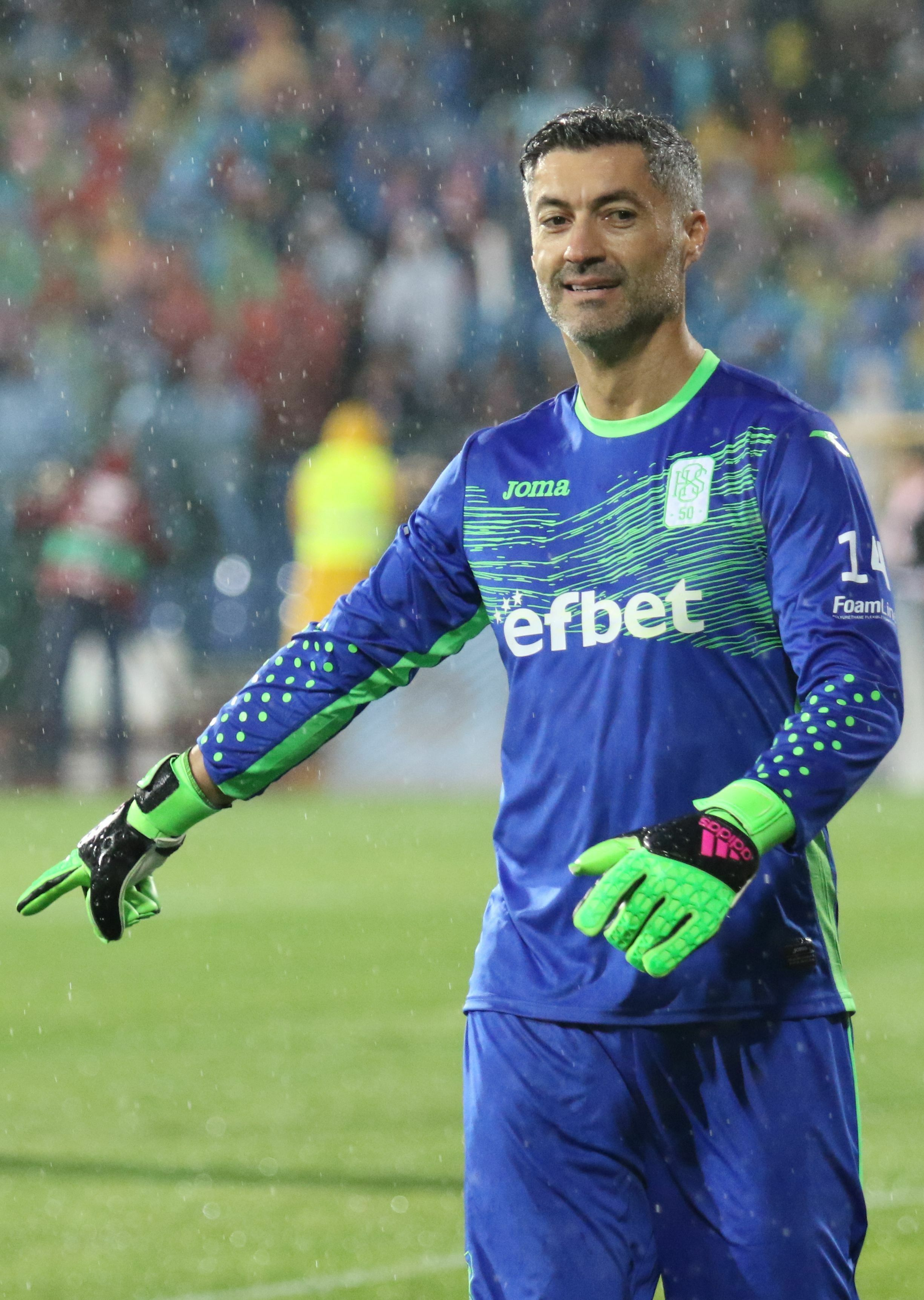 Vítor Manuel Martins Baía (São Pedro da Afurada, 15 oktober 1969), beter bekend als Vítor Baía, is een voormalig Portugees voetballer. De doelman speelde voor FC Porto en FC Barcelona.